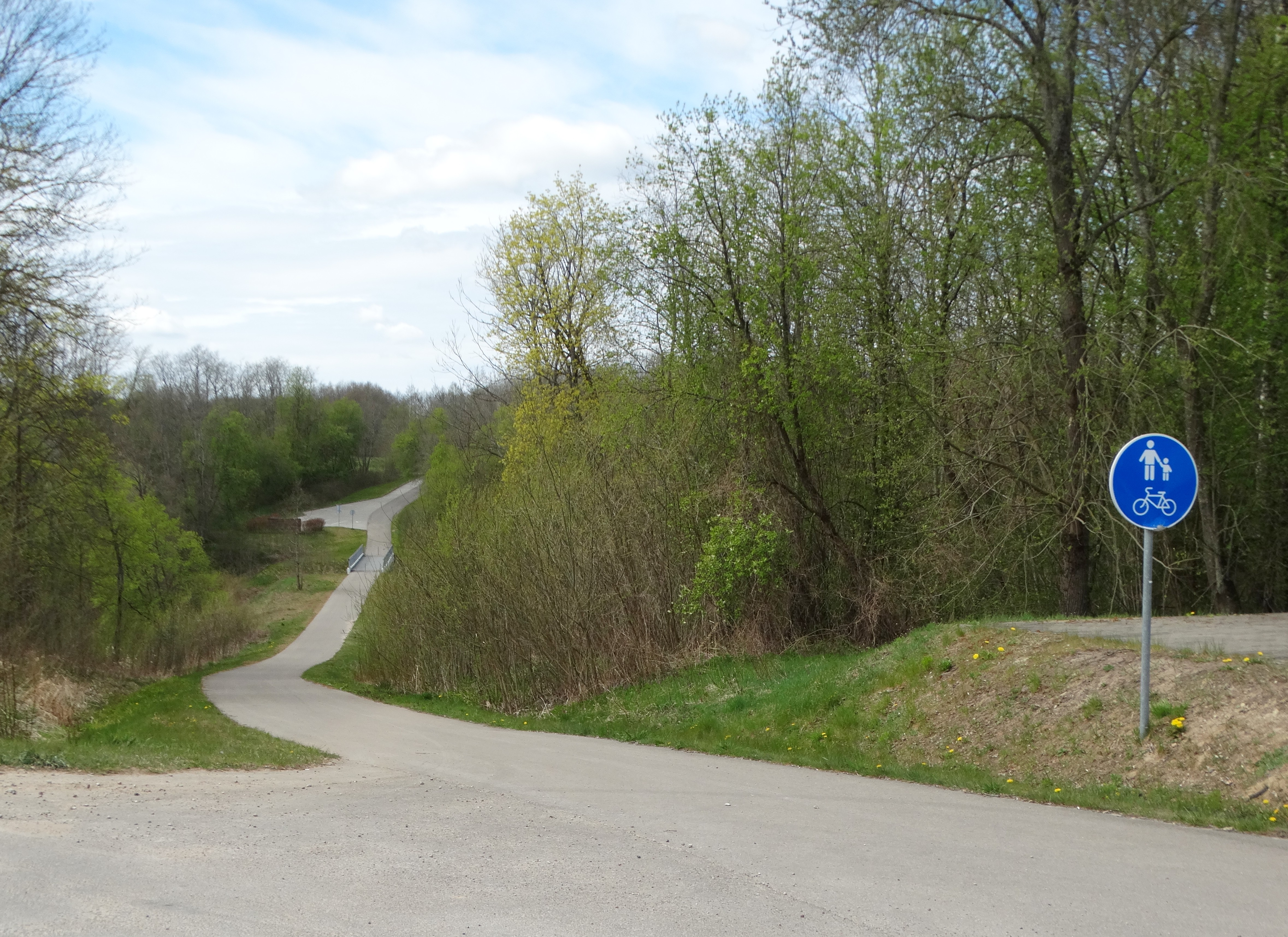 Road between the two monuments of the Convention, Požerūnai, Tauragė district, Lithuania